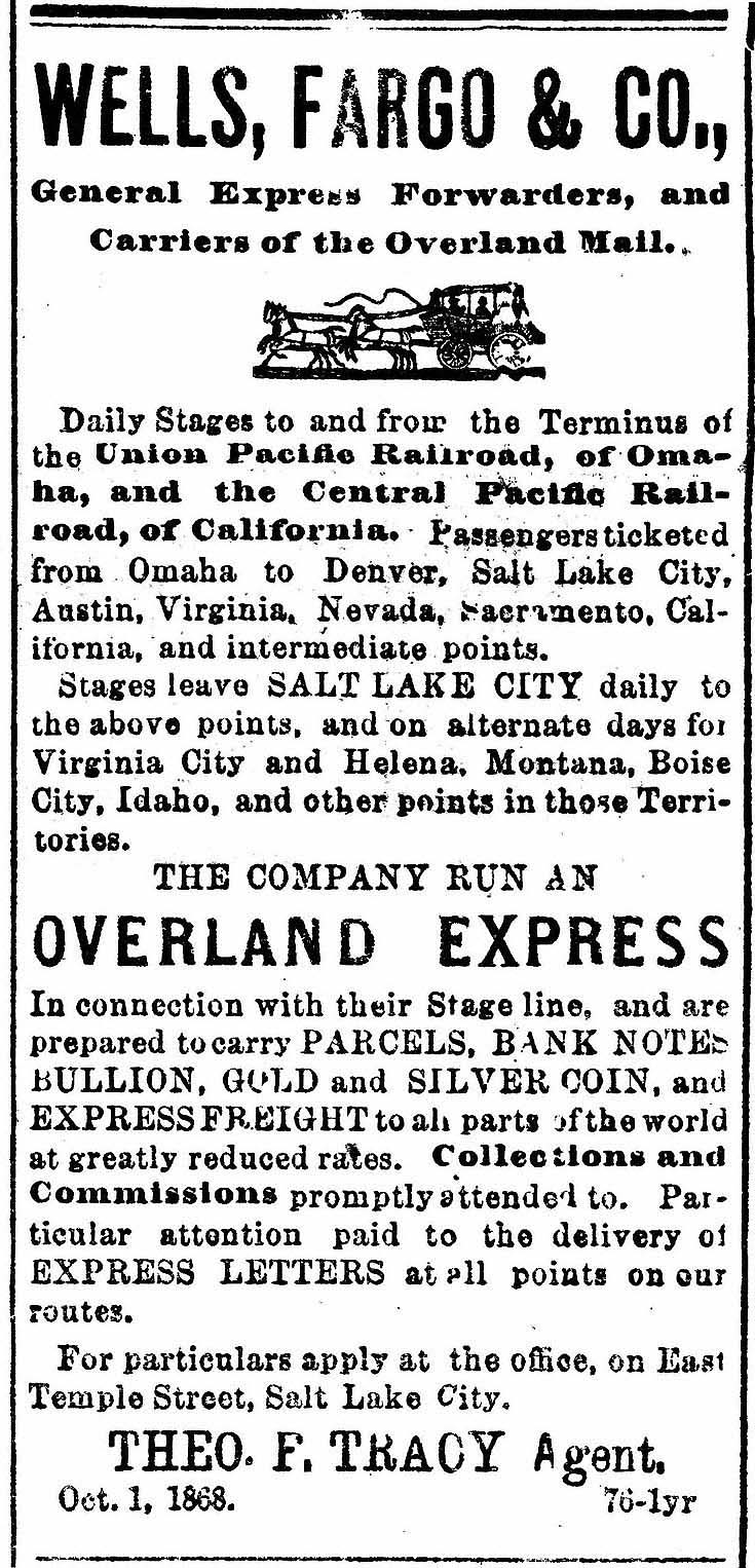 Wells, Fargo & Co. 1868 display advertisement for express and stagecoach services from Salt Lake City, U.T., and to transfer passengers and express between the still unfinished Central Pacific and Union Pacific railroads, appearing in the The Salt Lake Daily Telegraph. The Cooper Collection of US Railroad History